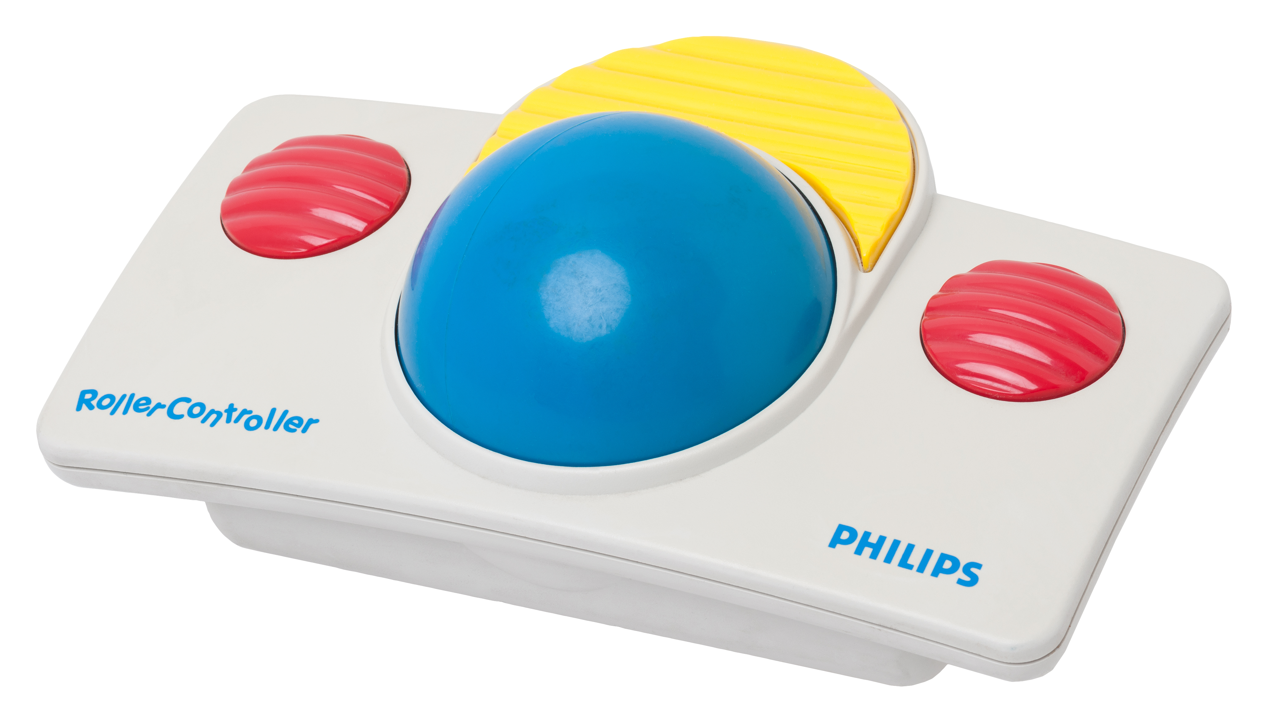 The Roller Controller for the Philips CD-i game console.